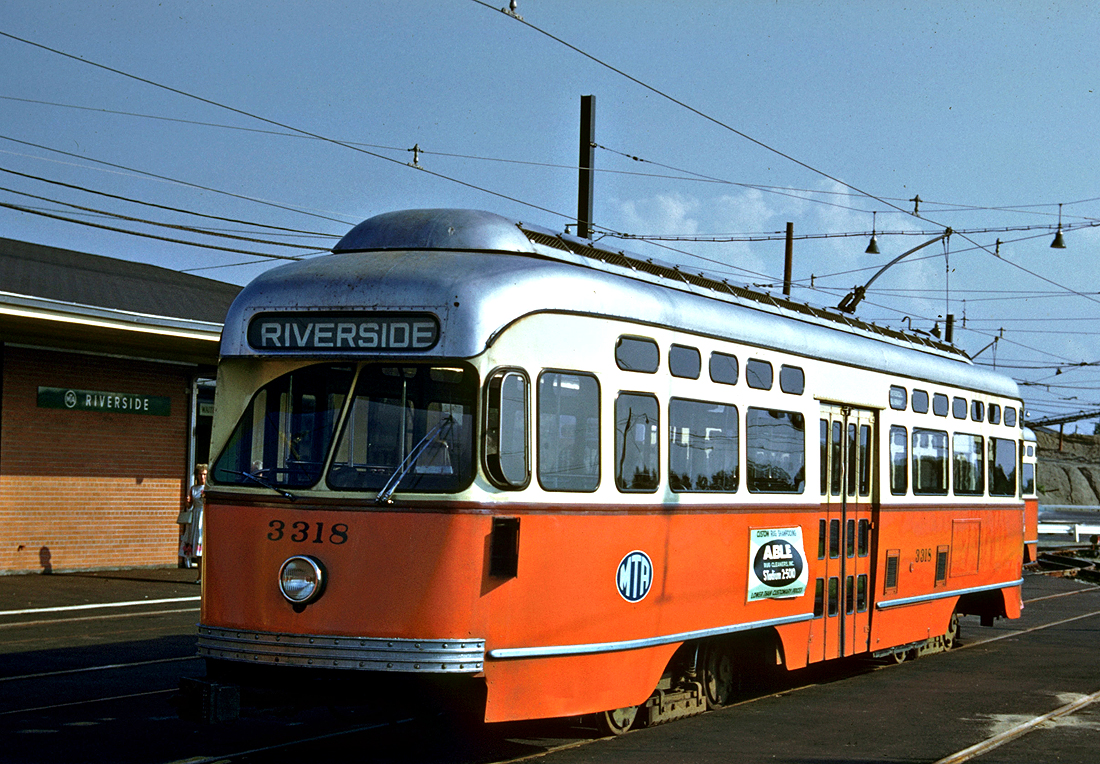 PCC streetcar on MBTA Green Line D Branch at Riverside; this is an MTA car from before the MBTA.